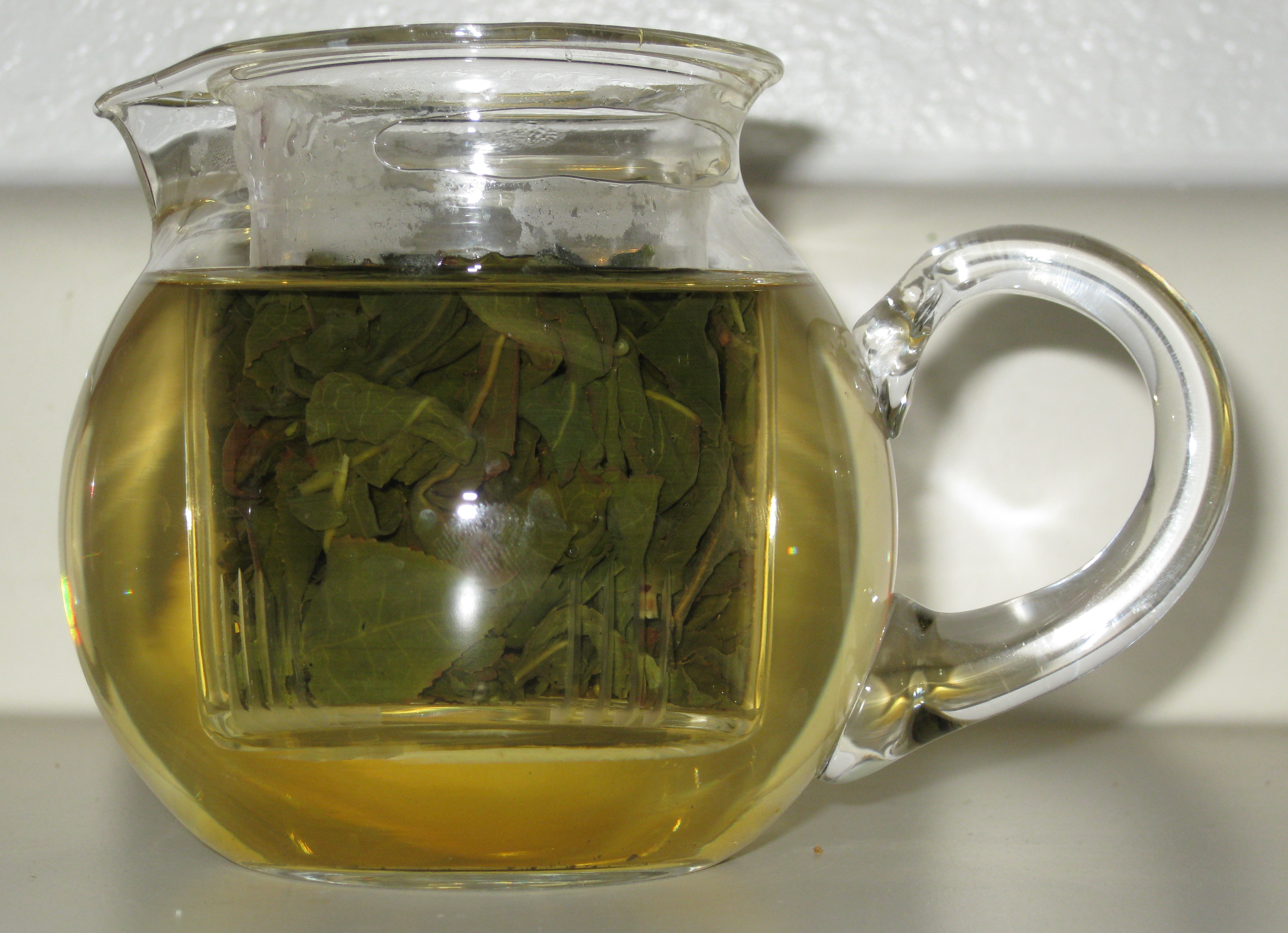 A small tea pot filled with loose leaf Oolong